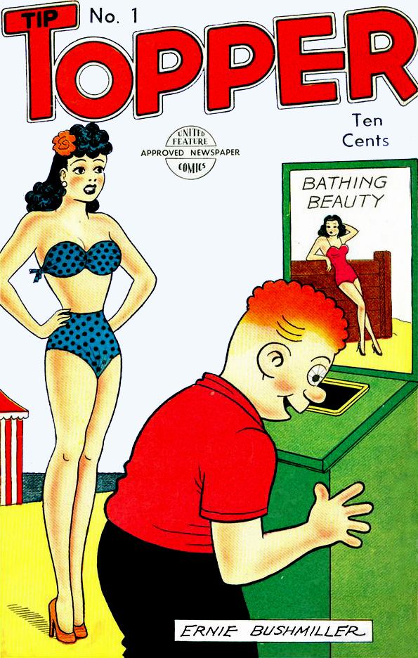 Fritzi and Phil on the cover of Tip Topper number 1 (October, 1949). Artwork by Ernie Bushmiller, published by United Features. Image is assumed to be in the public domain due to lapsed copyright.